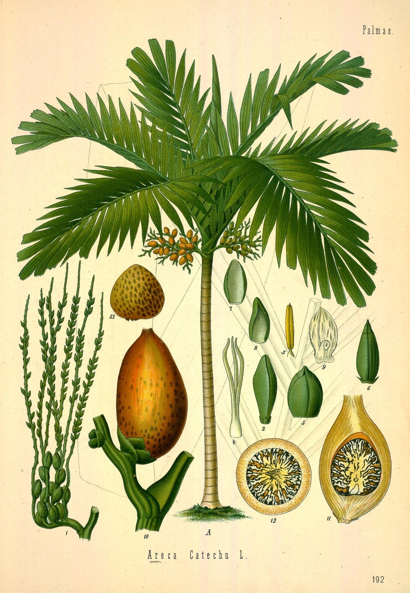 Areca catechu - the Areca palm. In botanical drawing from Köhler's Medizinal-Pflanzen - by Franz Eugen Köhler, in 1897.